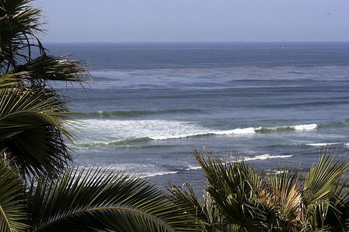 Swami's surfing area in Encinitas, San Diego County, California. Seen from the Self-Realization Fellowship ashram, on a beautiful sunny day.